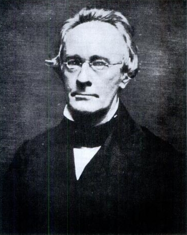 Portrait of Judge Green B. Samuels